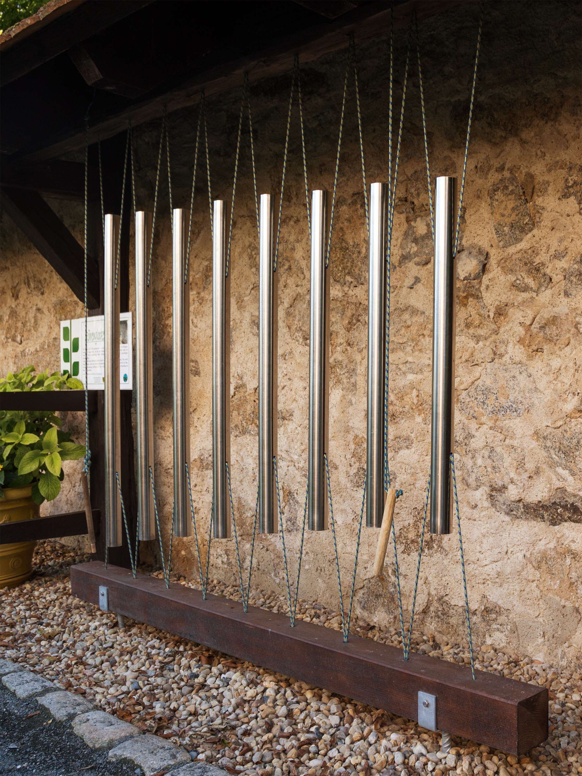 Tubular bells in the garden of the convent St. Marienstern, Panschwitz-Kuckau